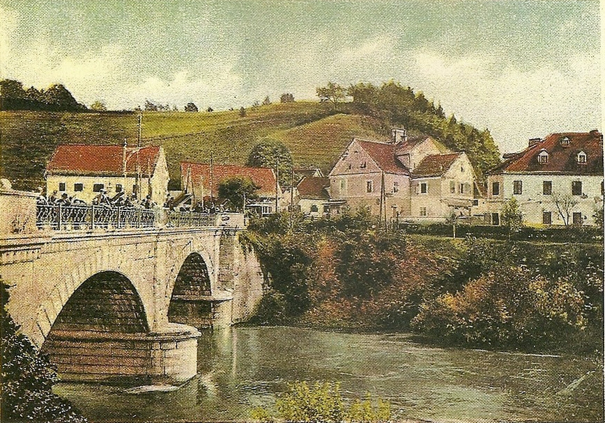 A postcard of the Old Karlovec Bridge in Ljubljana.